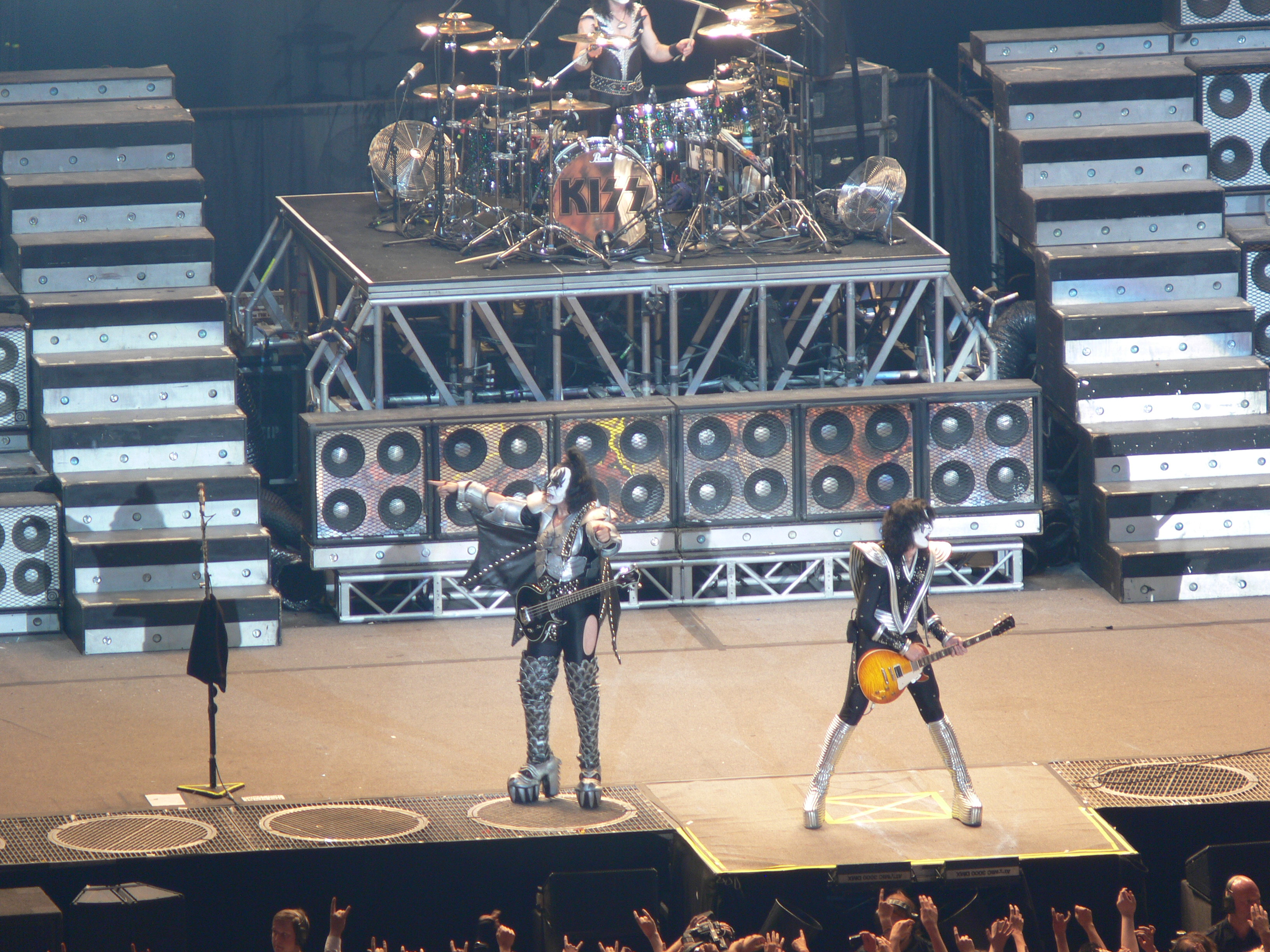 KISS